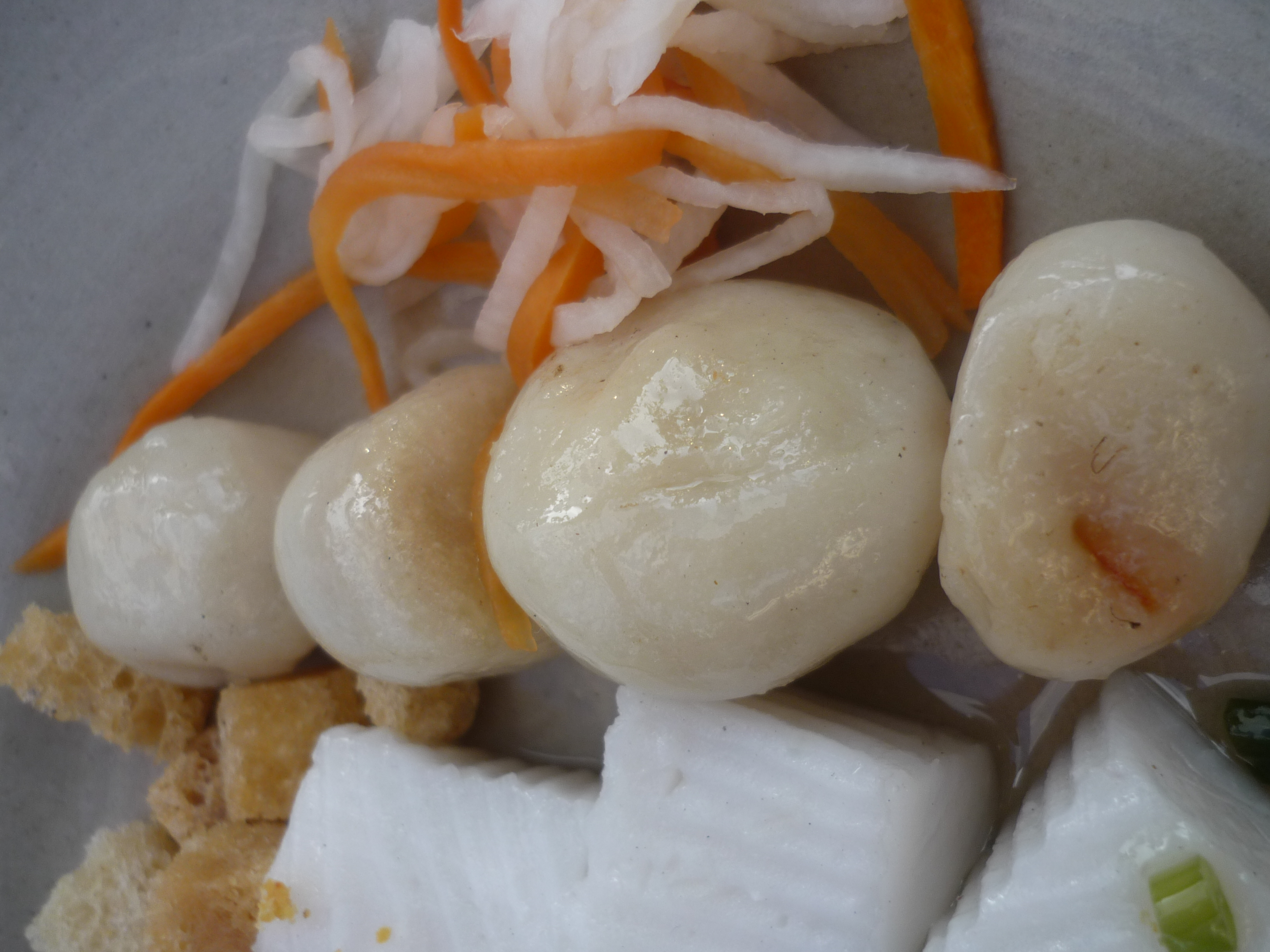 "Naked" small stuffed glutinous rice flour ballsTiếng Việt: Bánh Ít trần